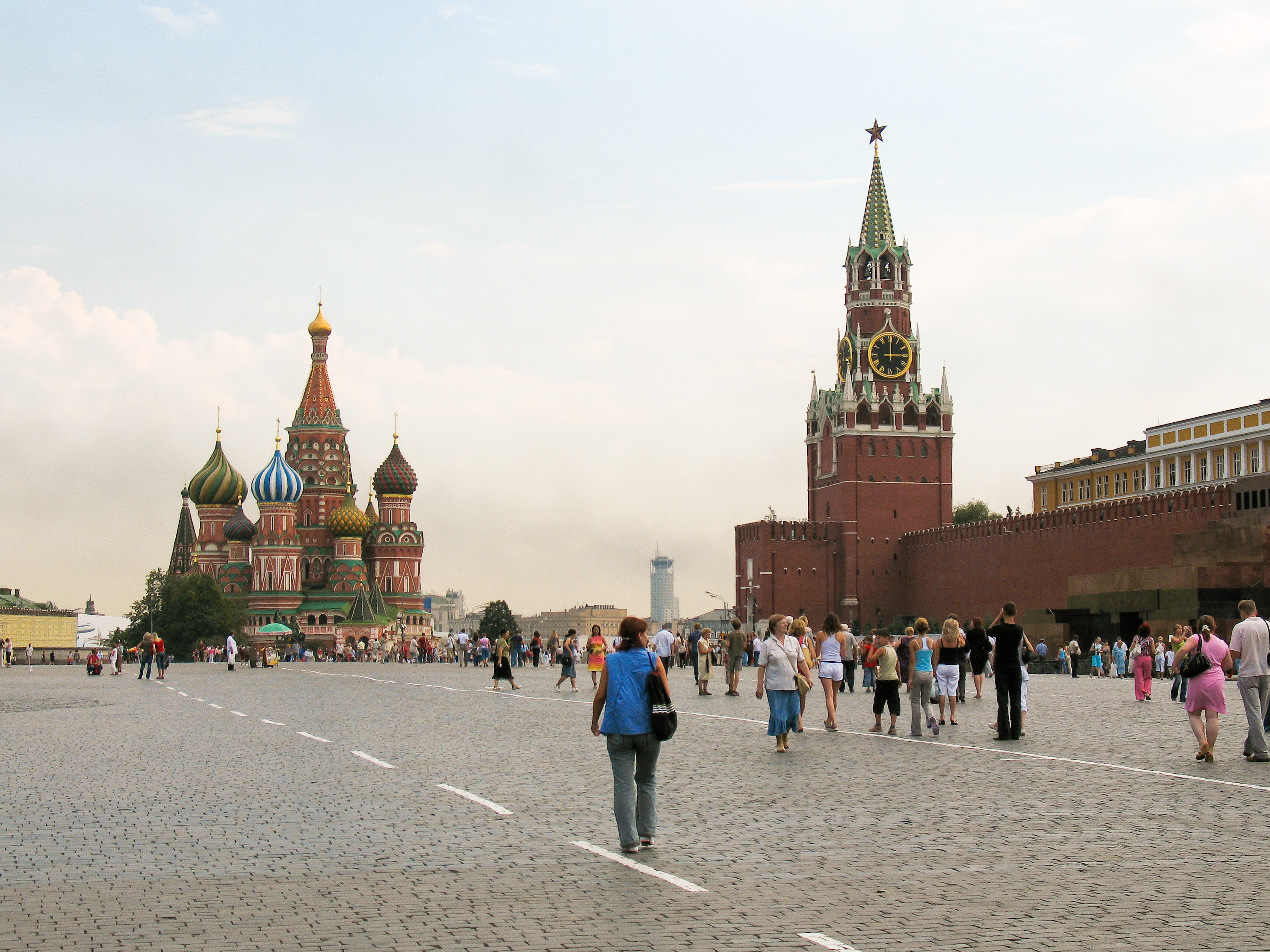 Red Square, Moscow, Russia